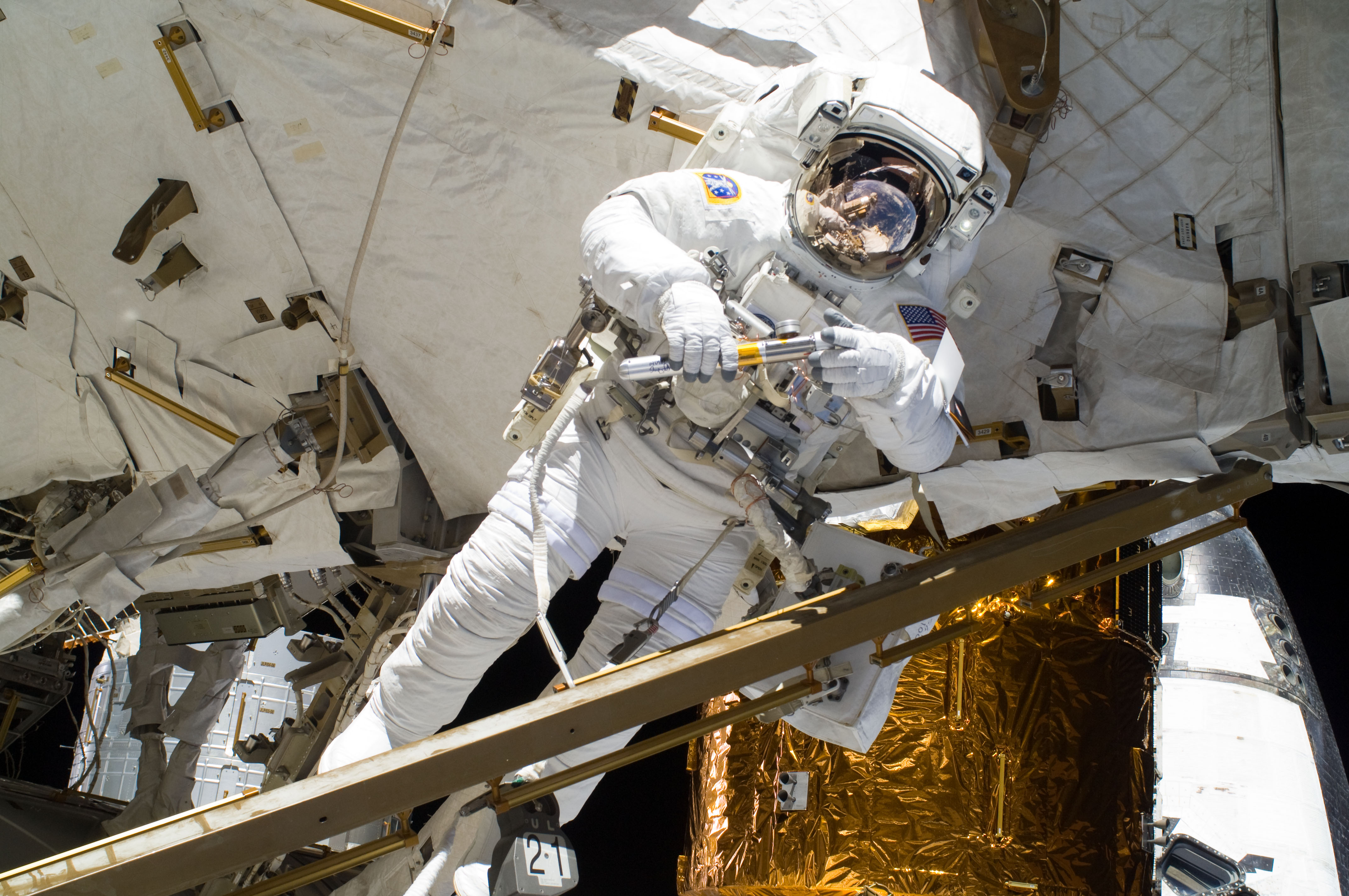 NASA astronaut Alvin Drew, STS-133 mission specialist, participates in the mission's first session of extravehicular activity (EVA) as construction and maintenance continue on the International Space Station. During the six-hour, 34-minute spacewalk, Drew and NASA astronaut Steve Bowen (out of frame), mission specialist, installed the J612 power extension cable, move a failed ammonia pump module to the External Stowage Platform 2 on the Quest Airlock for return to Earth at a later date, installed a camera wedge on the right hand truss segment, installed extensions to the mobile transporter rail and exposed the Japanese "Message in a Bottle" experiment to space.